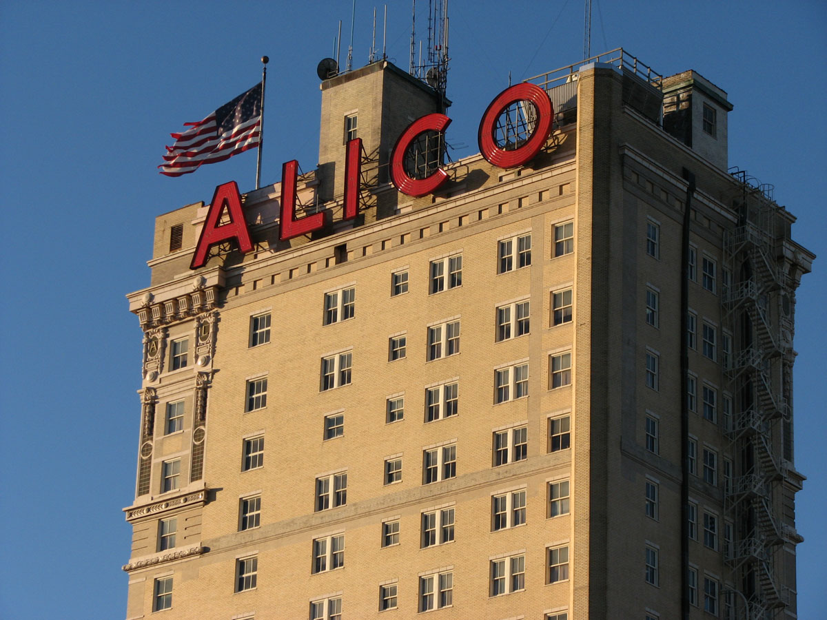 Photograph of the upper floors of the ALICO Building, including distinctive lettering.